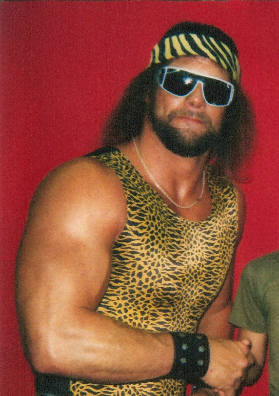 "Macho Man" Randy Savage in the summer of 1986